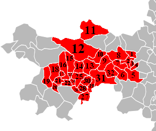 List of villages of AOP sweet onion Cévennes (numbered)